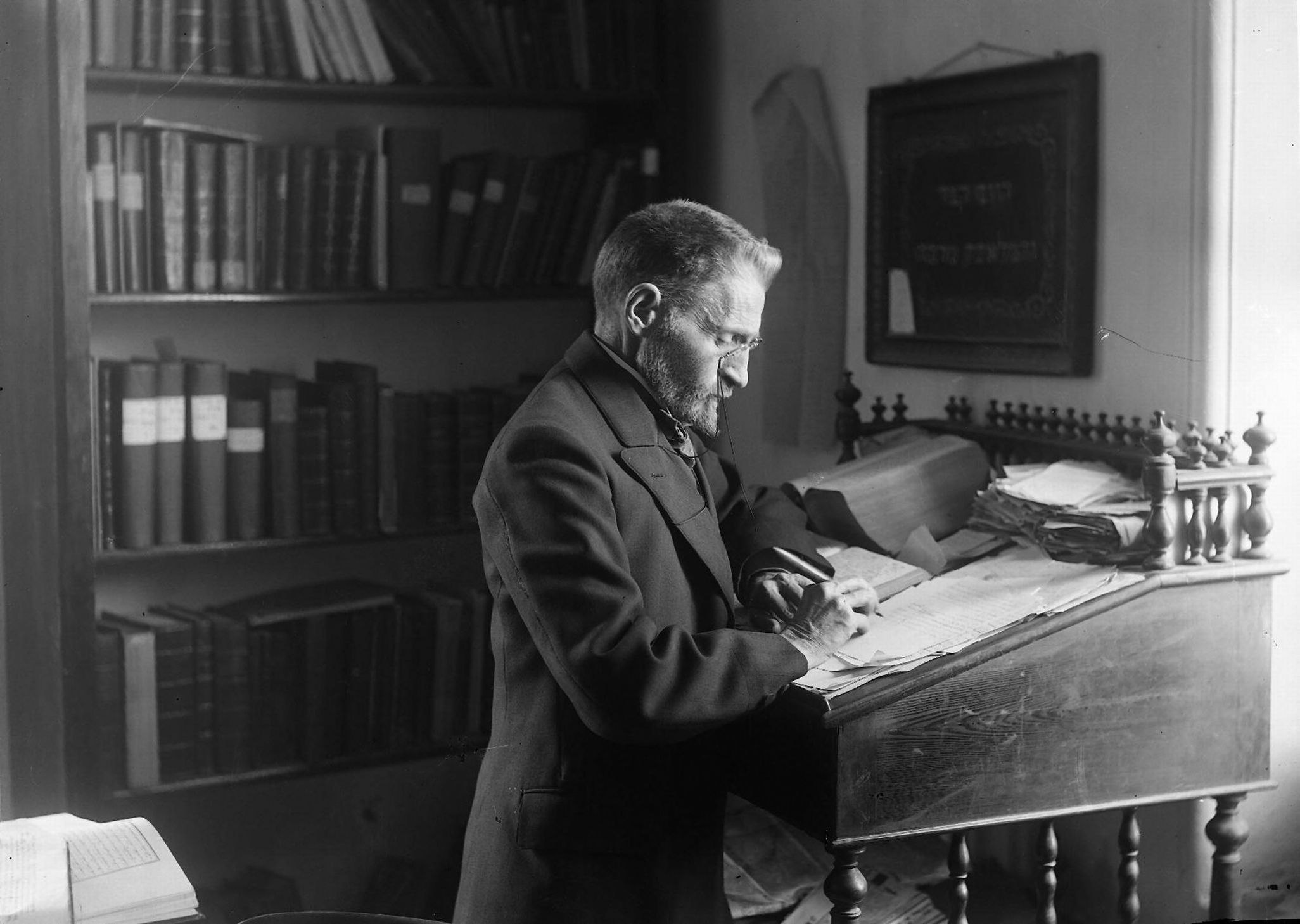 Eliezer in his house in Talpiot neighbourhood.